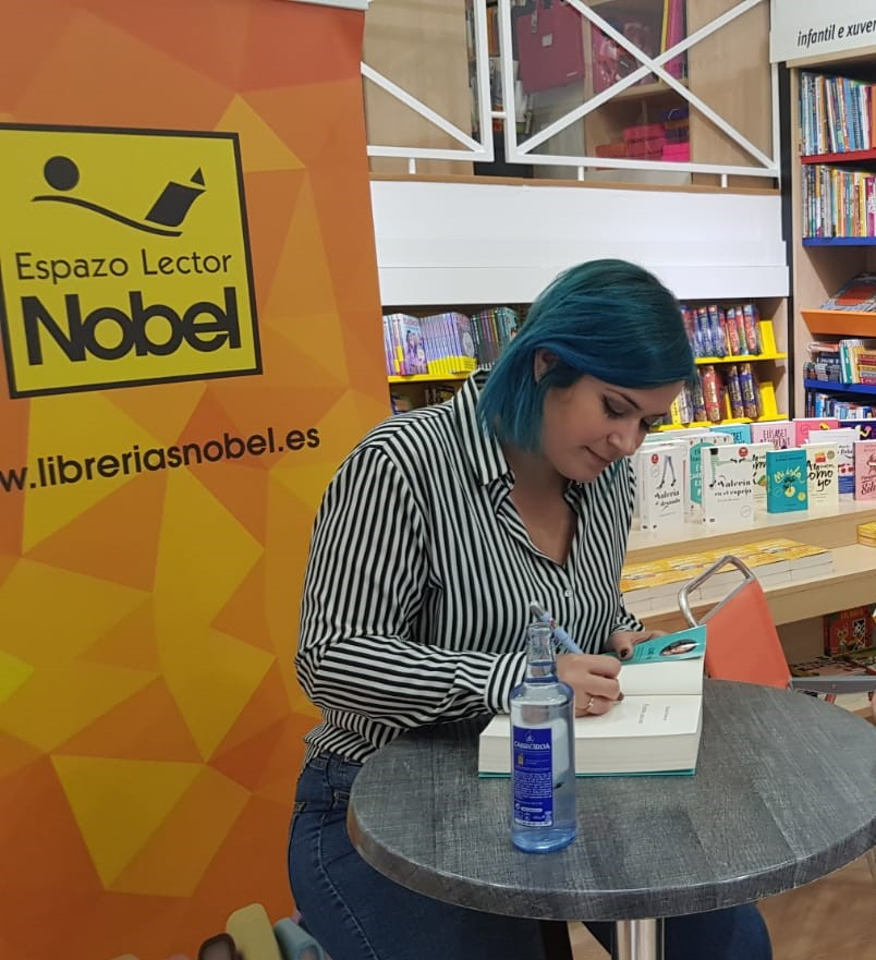 Elísabet Benavent in Ourense, 22nd March 2019.